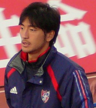 Reiichi Ikegami from FC Tokyo